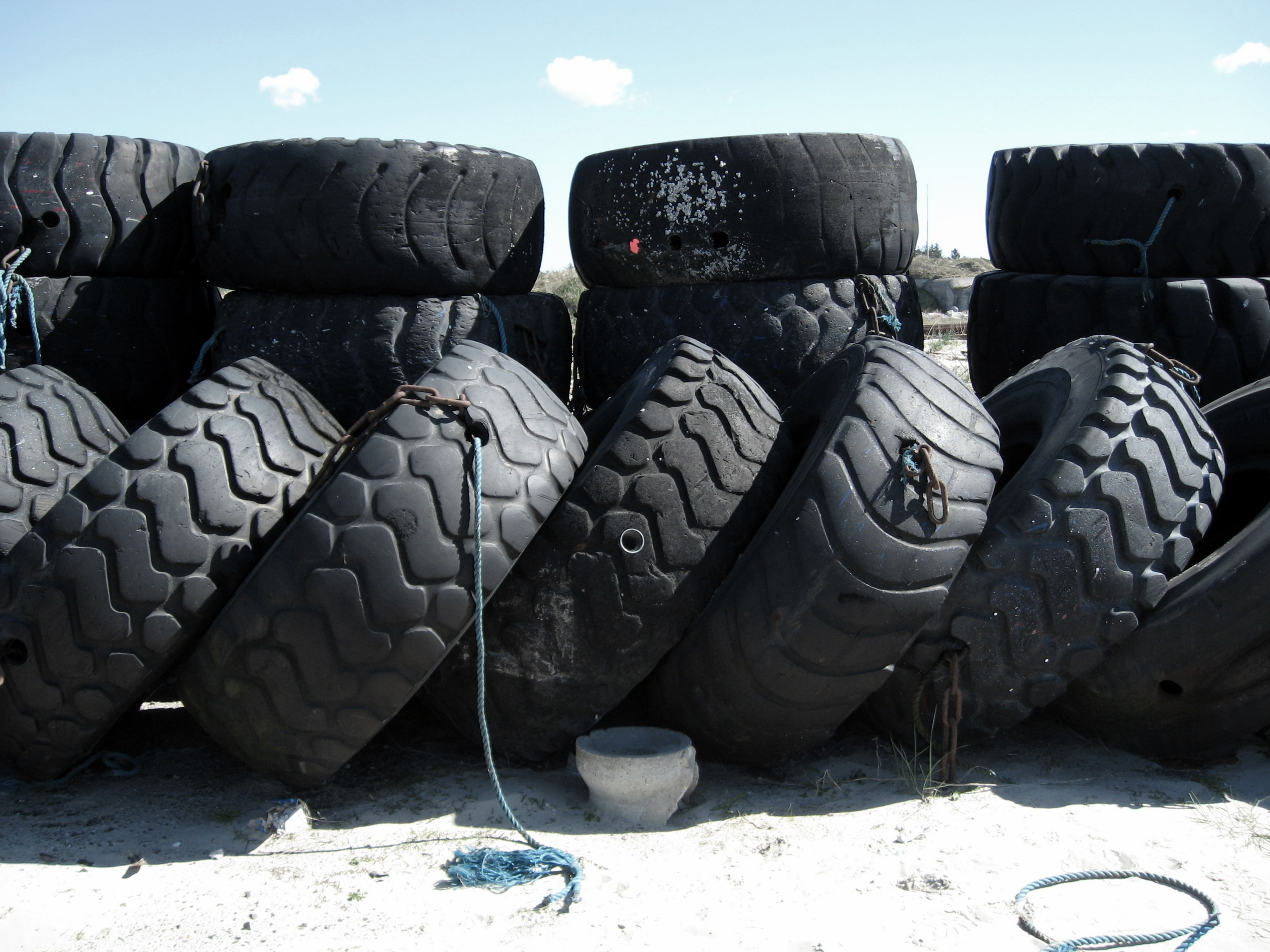 Tires